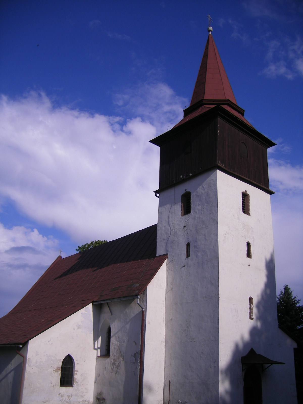 Turčiansky Peter - catholic church